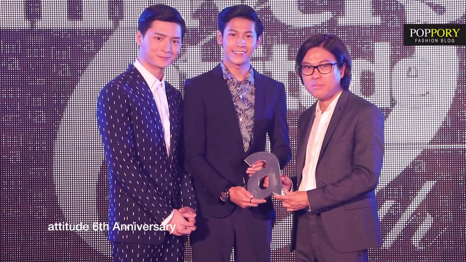 SOTUS The Series wins at attitude awards 2017